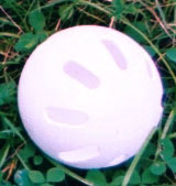 Cropped File:Wiffle bat and ball.jpg by Rmrfstar